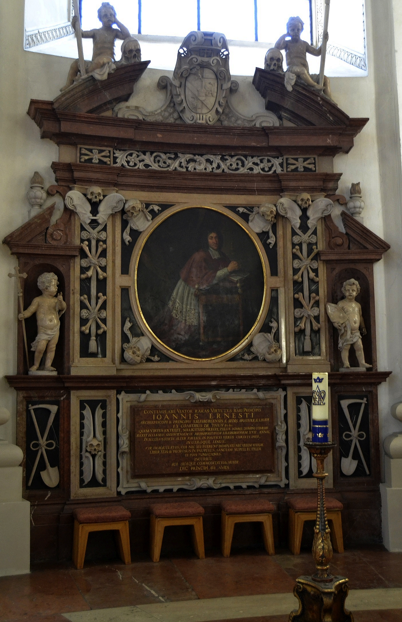 Salzburg Cathedral - cenotaph Archbishop Johann Ernst von Thun und Hohenstein